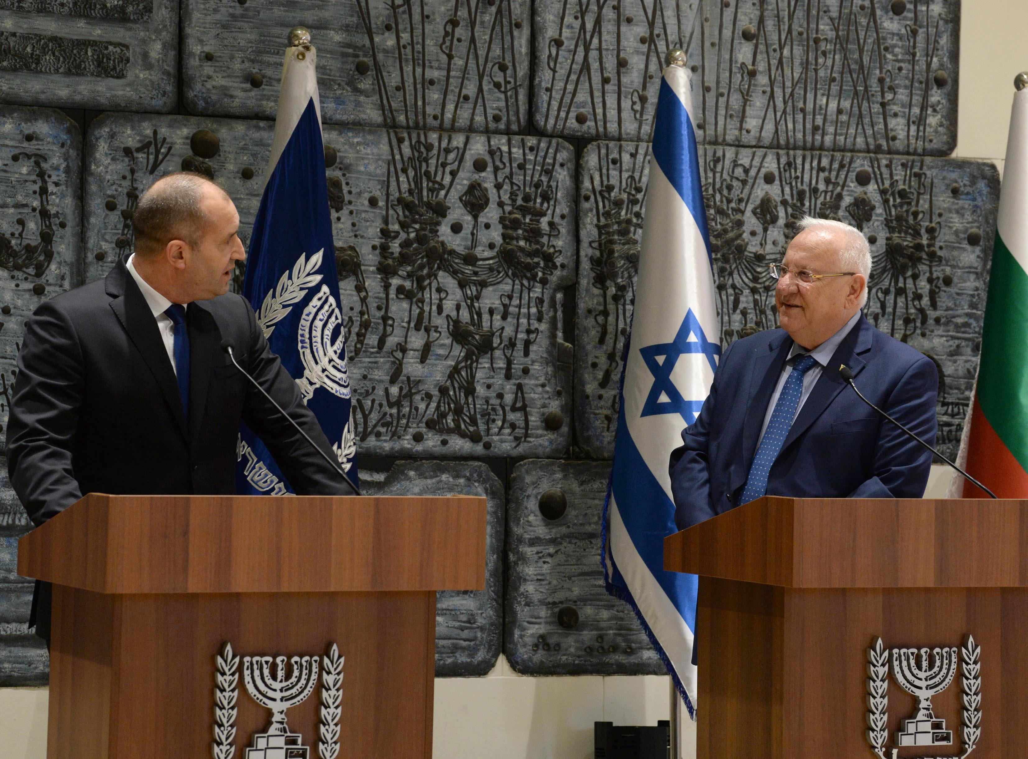 President of Israel, Reuven Rivlin, and his wife greeting the President of Bulgaria, Rumen Radev, and his wife, Dasislav Radev, who have been on a state visit to Israel. Tuesday, March 20, 2018. Photo Credit: Mark Neyman / GPO. Depicted people: Reuven Rivlin and Rumen Radev